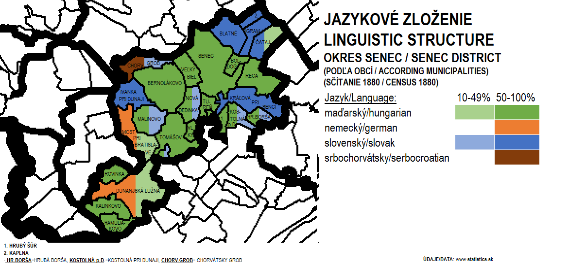 Linguistic structure of Senec district (according census in 1880).